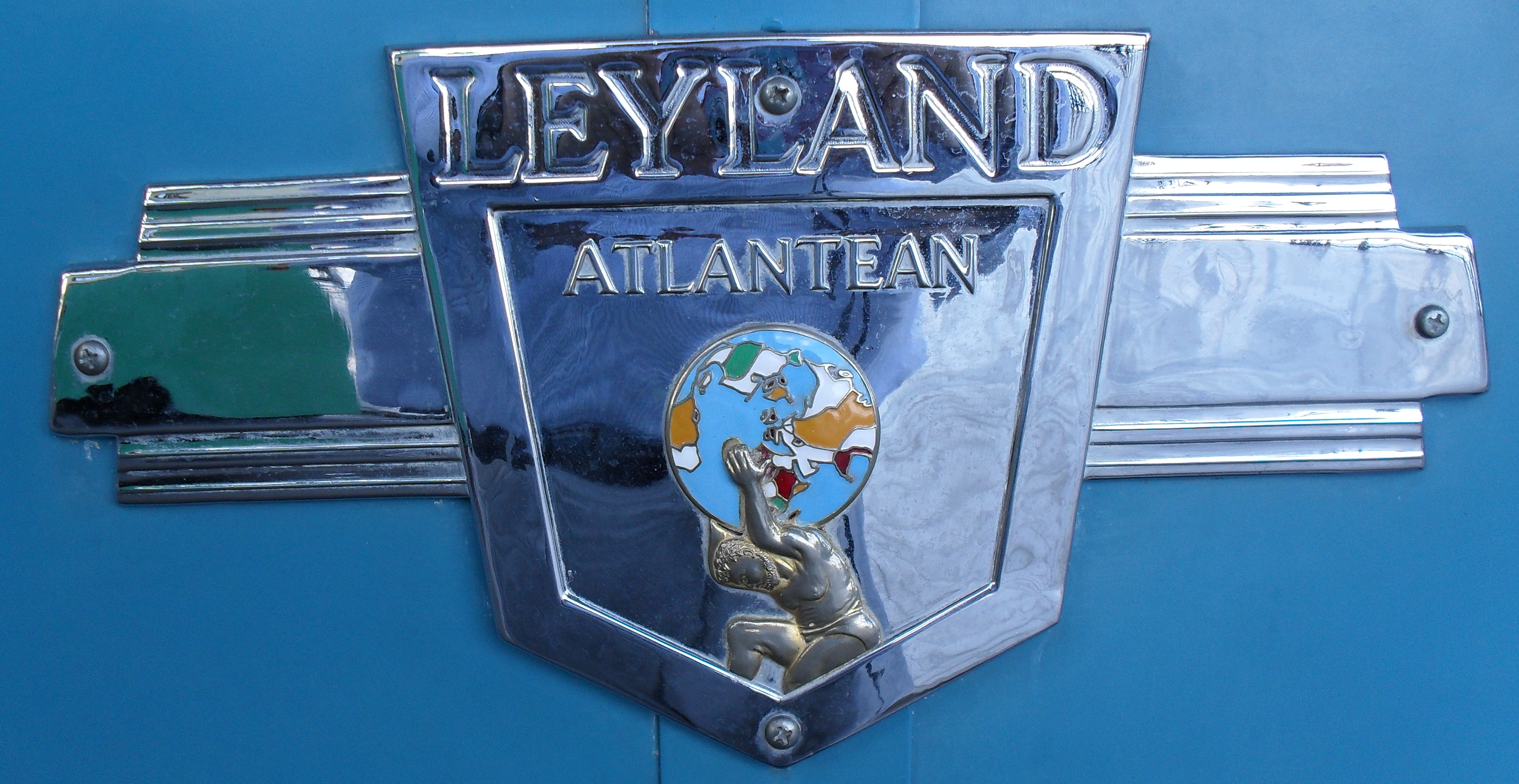 Maker's badge attached to the front panel of the bus exterior